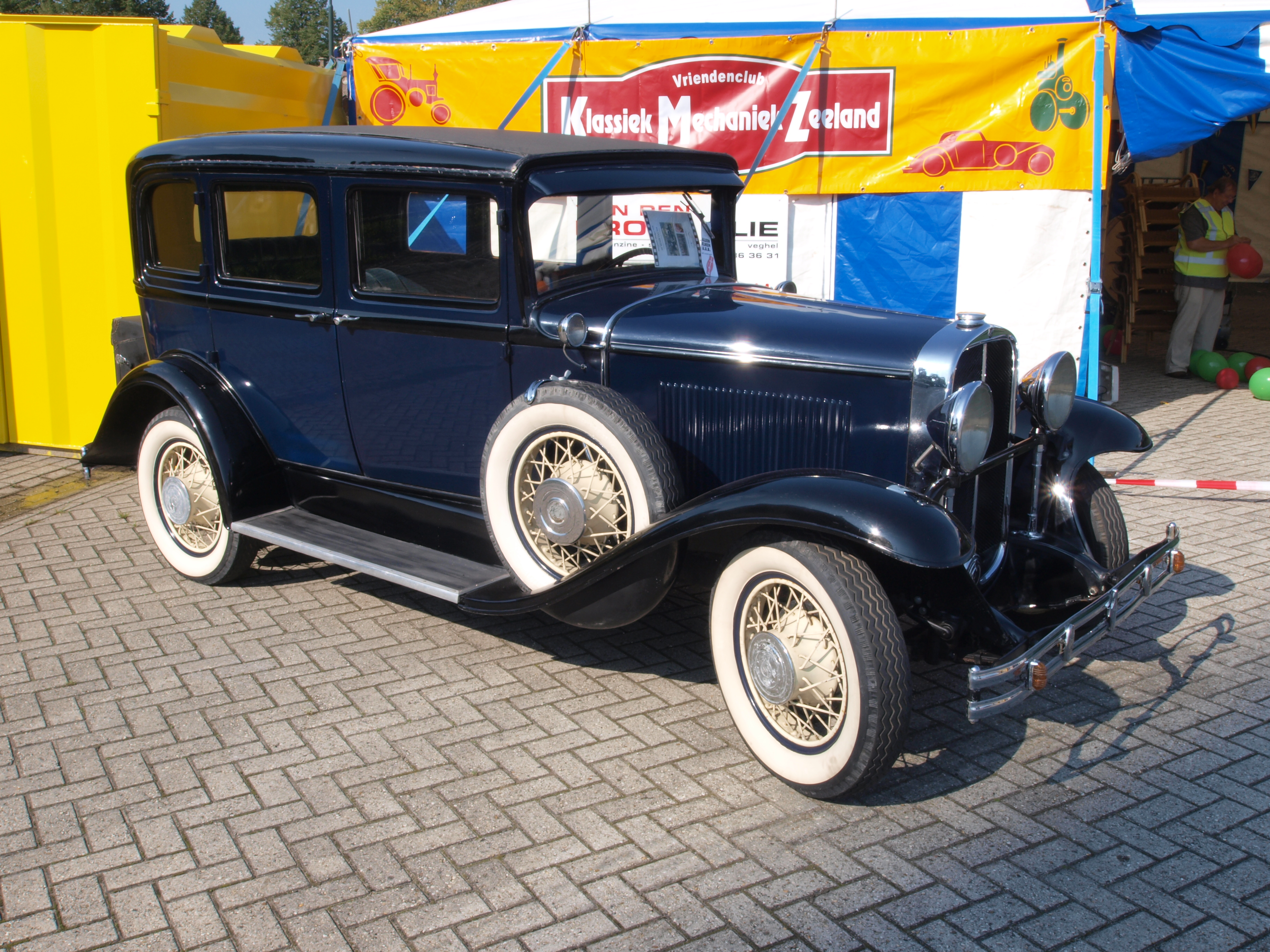 Photographed at the Classic Vehicle meeting 'Klassiek Mechaniek Zeeland 2011', The Netherlands.